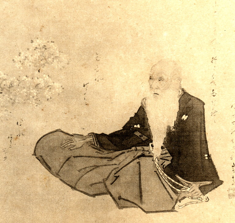 This self-portrait was drawn by Kikuchi Yosai（菊池容斎） who was a painter in Japan.